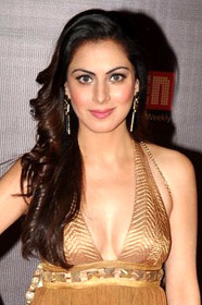 Shraddha Arya at 20th Annual Life OK Screen Awards